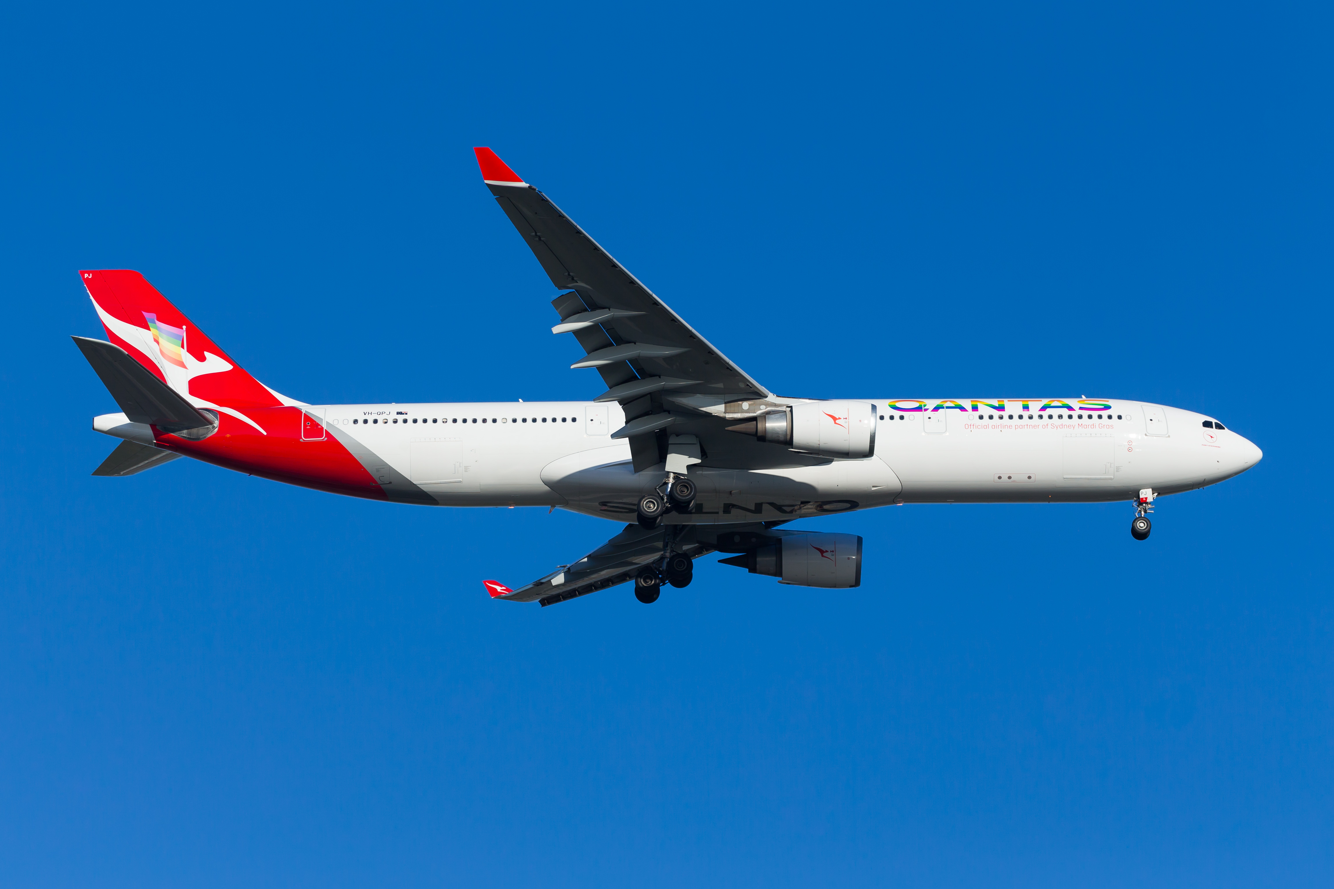 Qantas Airbus A330-300 (VH-QPJ) on finals into Brisbane Airport. The aircraft is wearing a special livery as Qantas is an official sponsor of the Sydney Gay & Lesbian Mardis Gras. The aircraft has been dubbed the #Gay330 and #PrideRoo